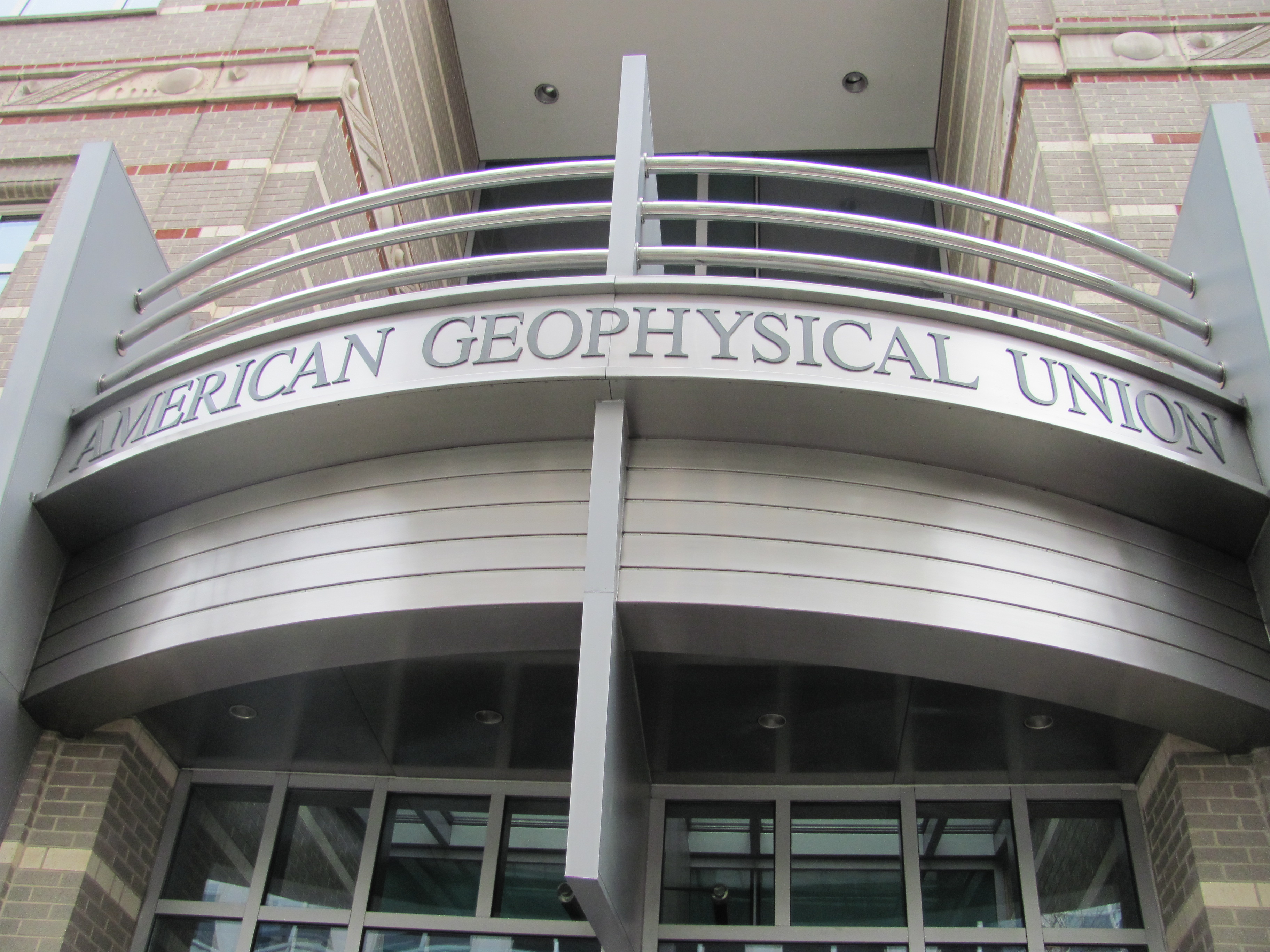 Photograph of the front entrance of the American Geophysical Union building, Washington DC.